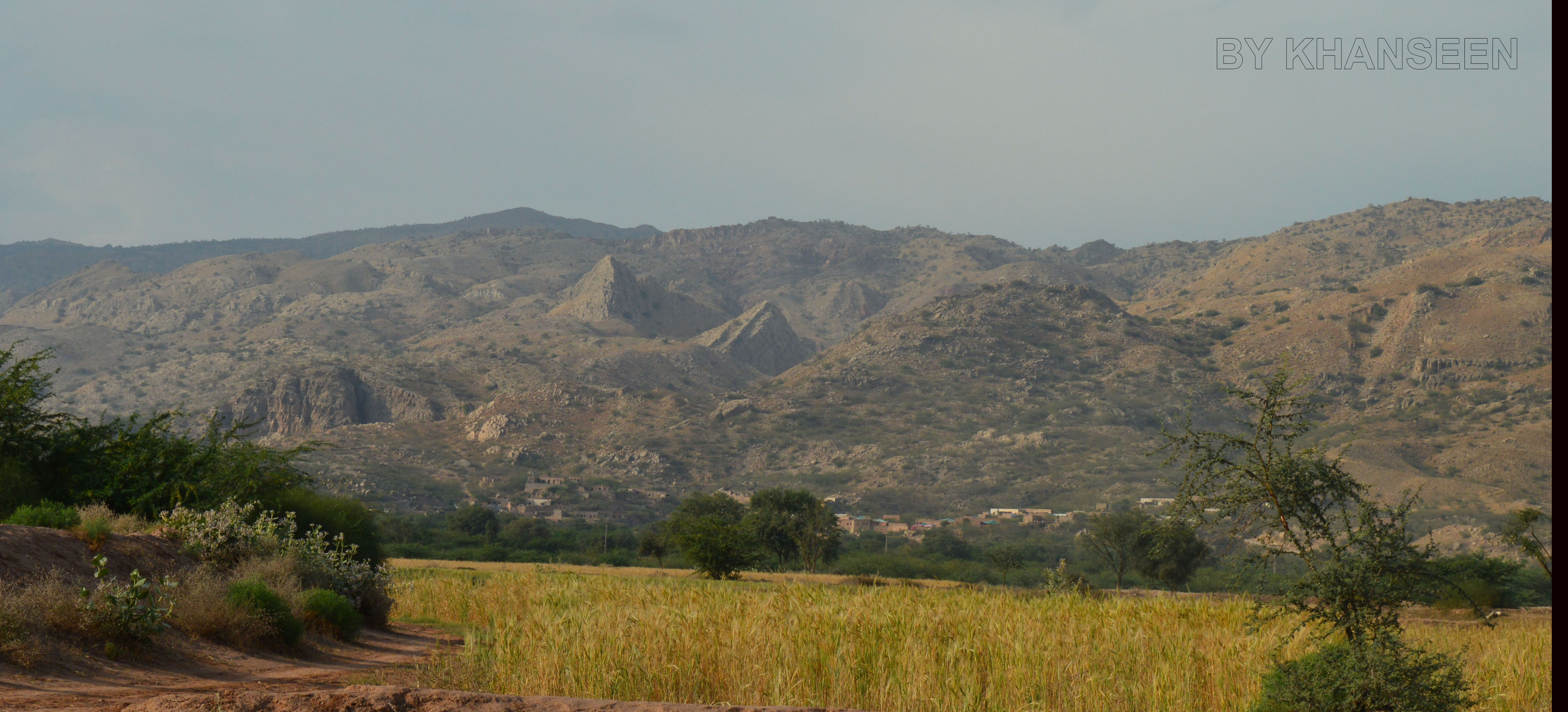 Jabbi Shareef Village since 1840